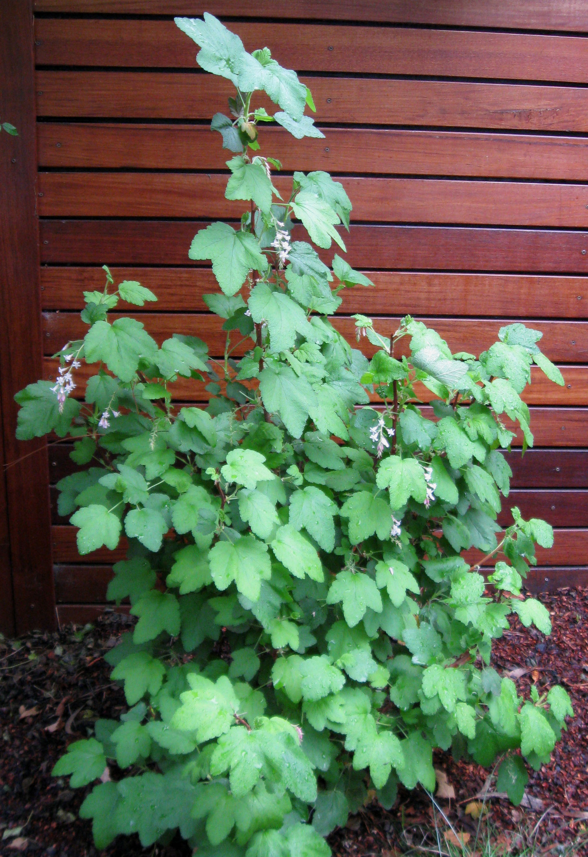 Ribes malvaceum — chaparral current. Cultivated in garden setting.